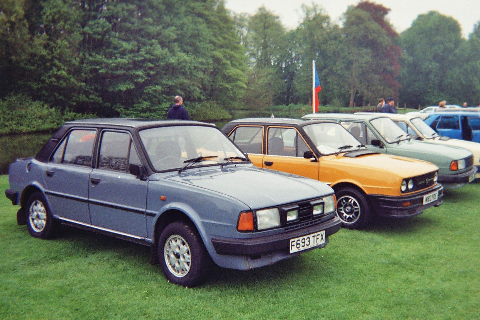 Line up of Skoda Estelle and Super Estelle at the Wartburg/Trabant/IFA Club UK Rally 2006 in Stanford Hall. Photo by Asterion talk to me